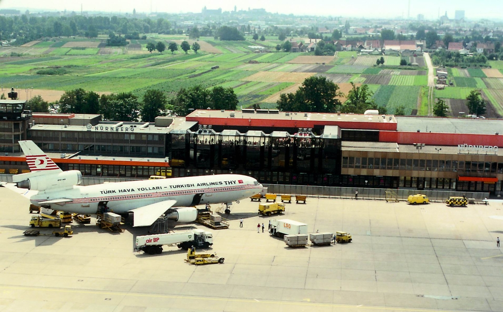 Aerial photo of the of 80s, with the terminal building and the new observation deck. In the Foreground a McDonnell Douglas DC-10-10 of Turkish Airlines.